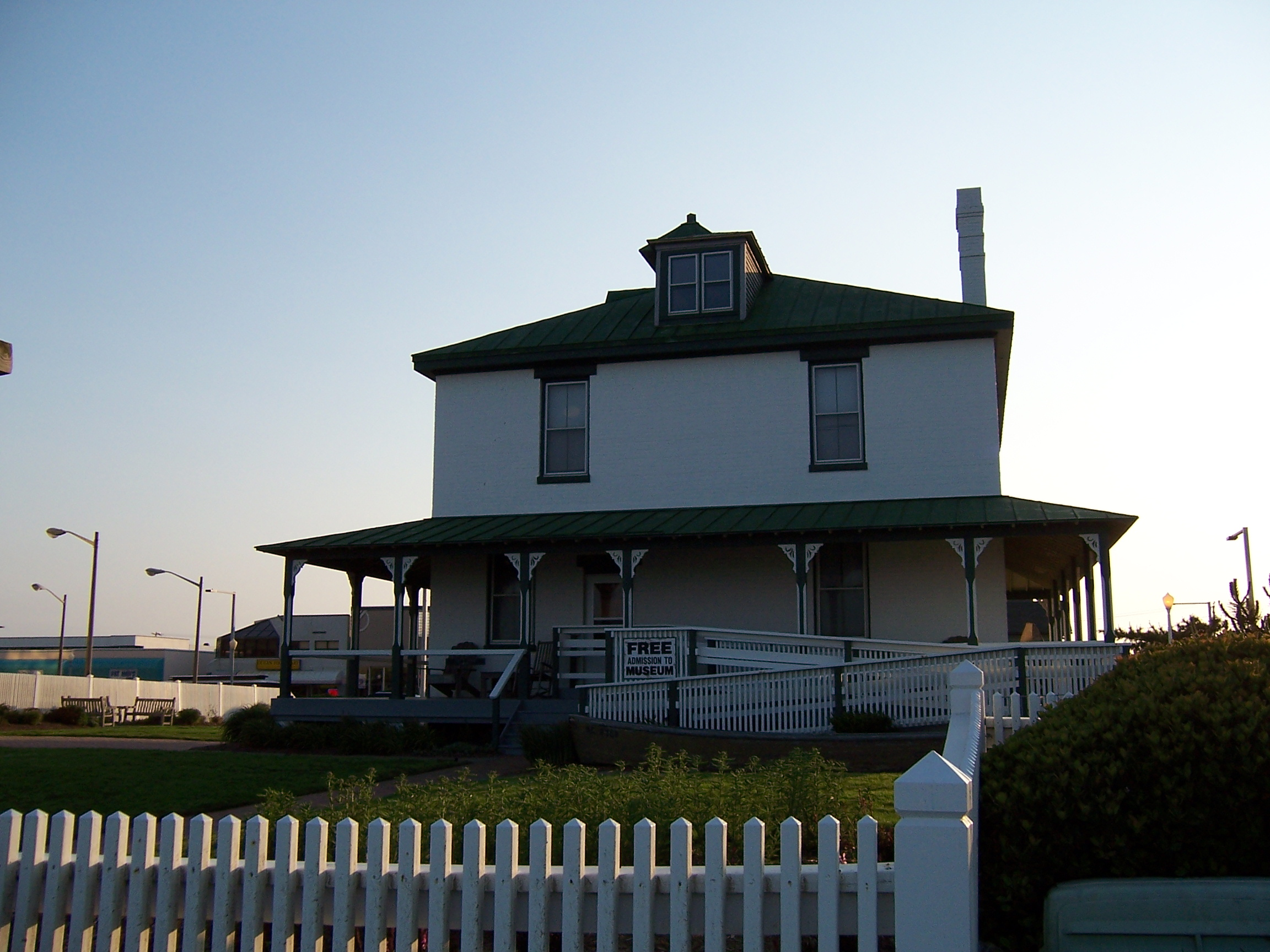 Built in 1895 by Jerome P. Holland. Purchased in 1909 by Cornelious Dewitt, the property remained in the DeWitt family until 1988.With fourteen inch brick walls, twenty-two rooms, a basement and an attic, this house is an example of a early typical beach house. The cottage is now home to the Atlantic Wildfowl Heritage Museum. Only one left on Virginia Beach of its type.